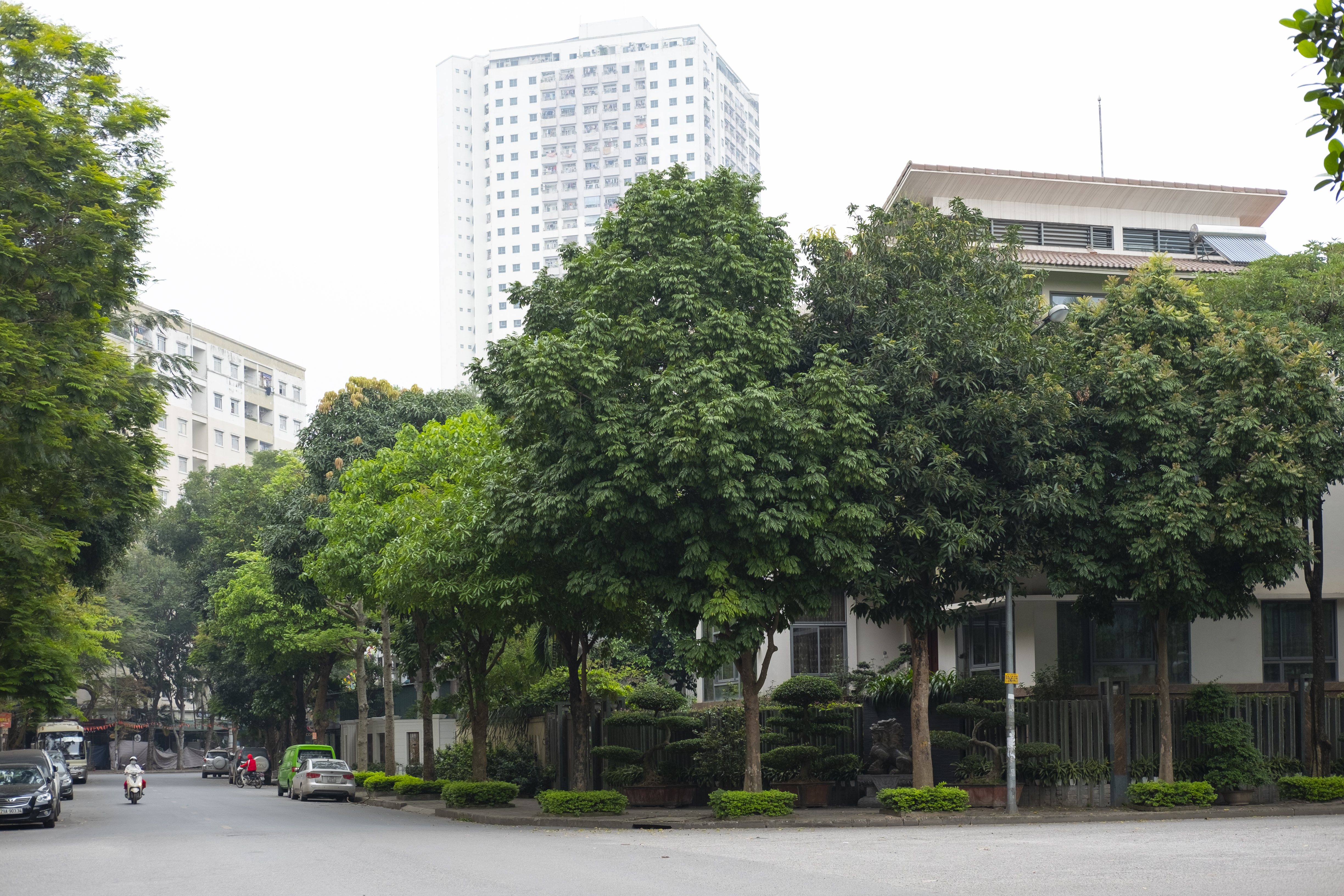 Biệt thự Linh Đàm, Hà Nội.